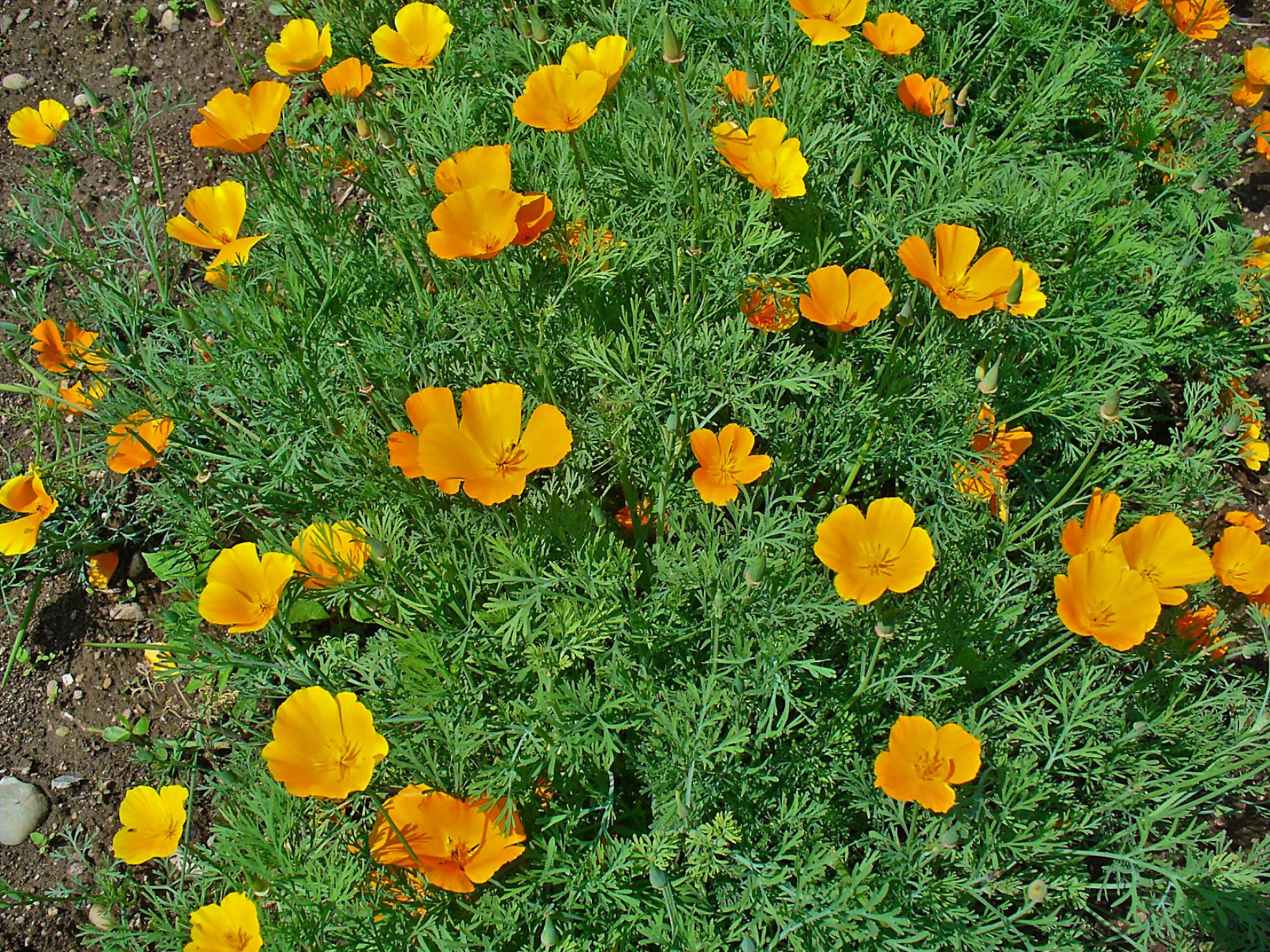 Eschscholzia californica, Papaveraceae, California poppy, habitus. The blooming plant is used in homeopathy as remedy: Eschscholzia californica (Esch.)